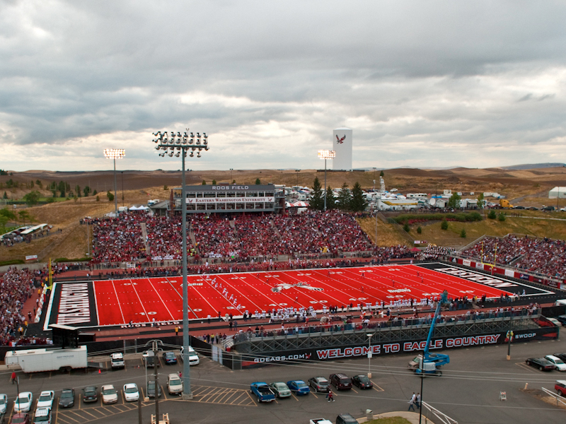 The first football game on Eastern's new red Sprinturf surface was a huge success as the 18th-ranked Eagles knocked off No. 6 Montana 36-27 Saturday (Sept. 18, 2010) in the Big Sky Conference opener for both schools at Roos Field in Cheney, Wash.